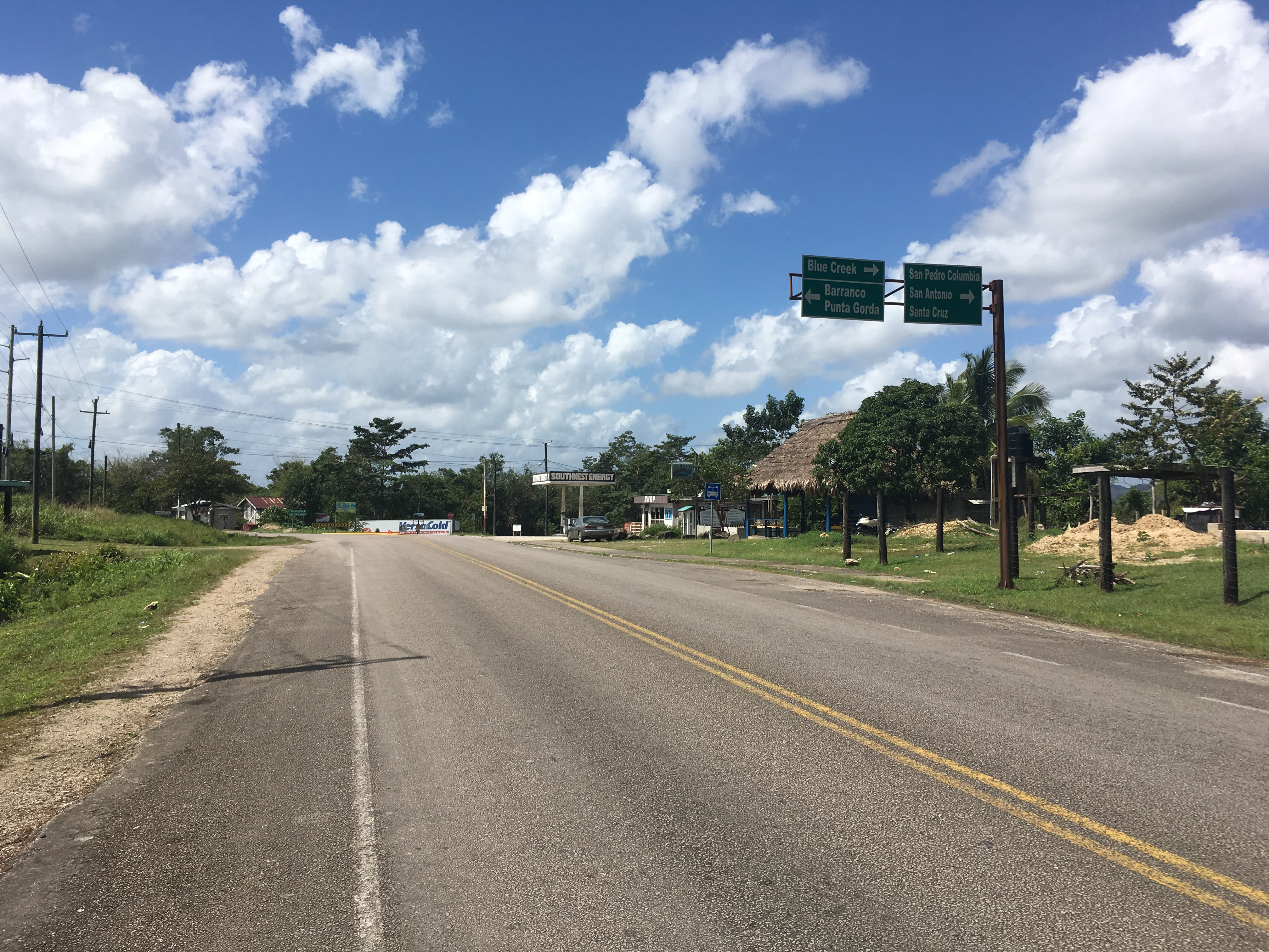 Southern Highway in Dump, Belize